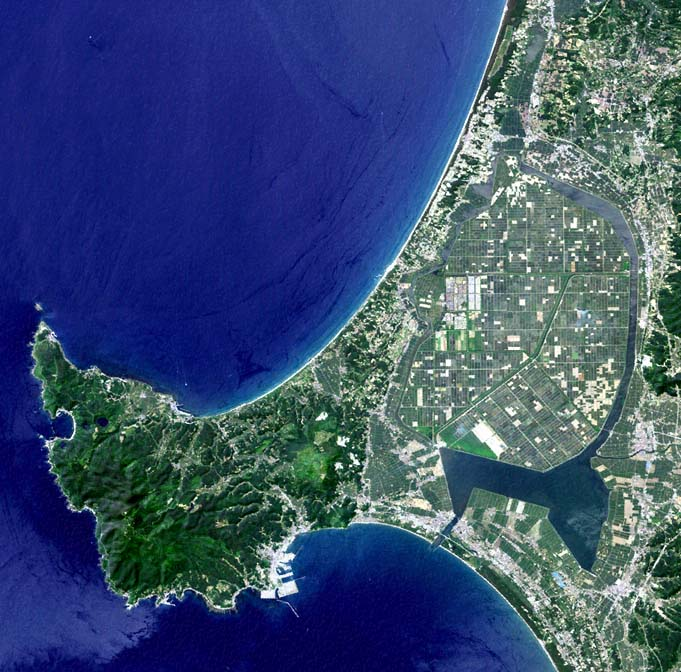 Oga Peninsula, Akita, Japan. Hachirōgata is the flat farmland surrounded by water near the base of the peninsula.